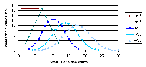 The probabilities of rolling 1-5 six-sided dice.